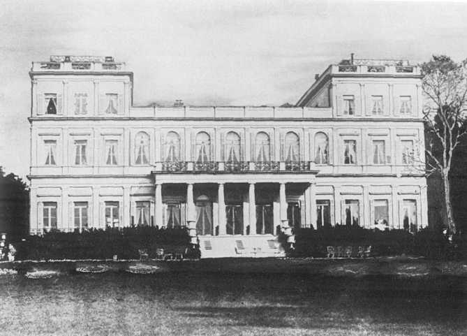 Rothschildpalais in Frankfurt 1855